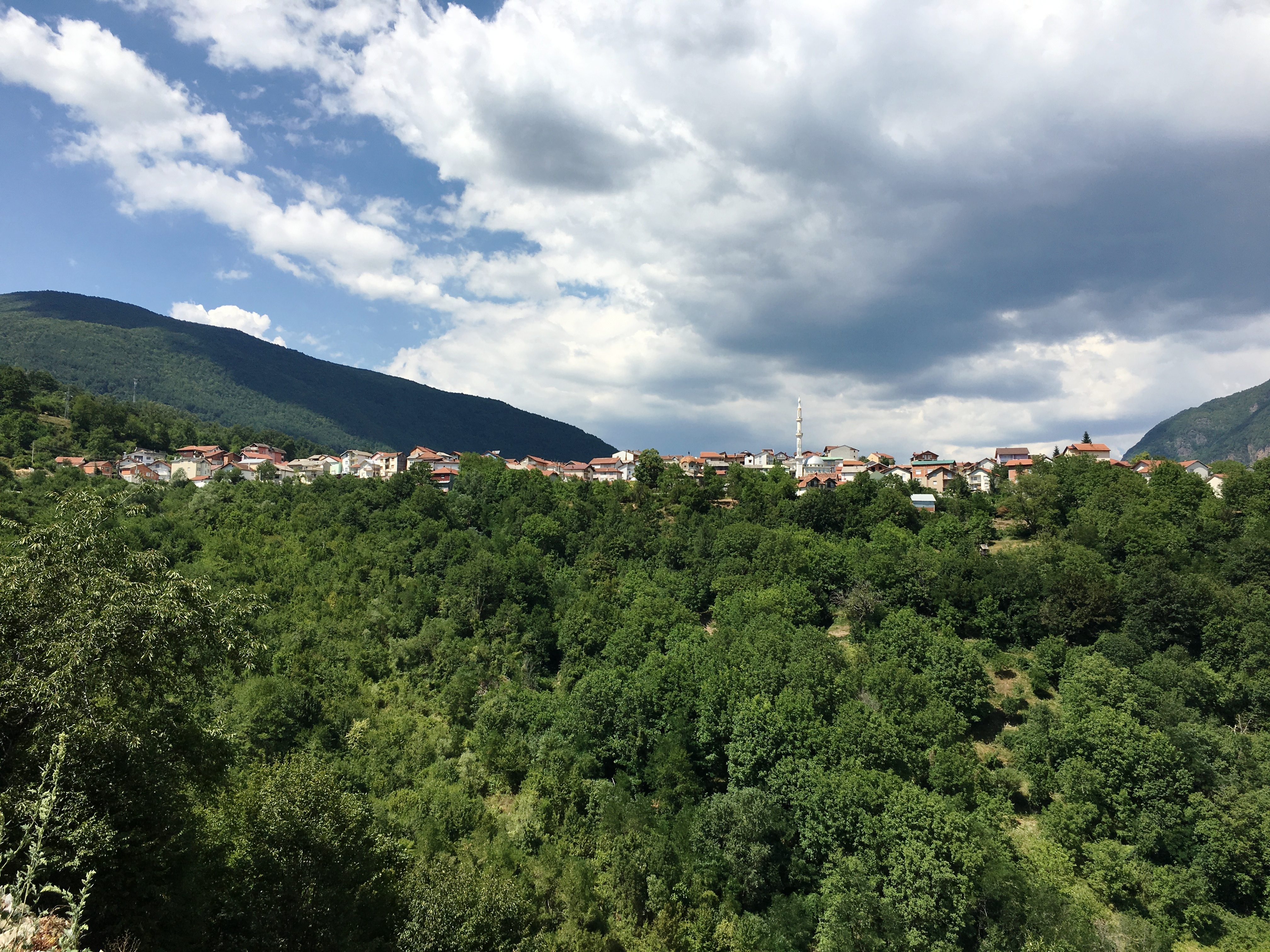 Panoramic view of the village of Velebrdo